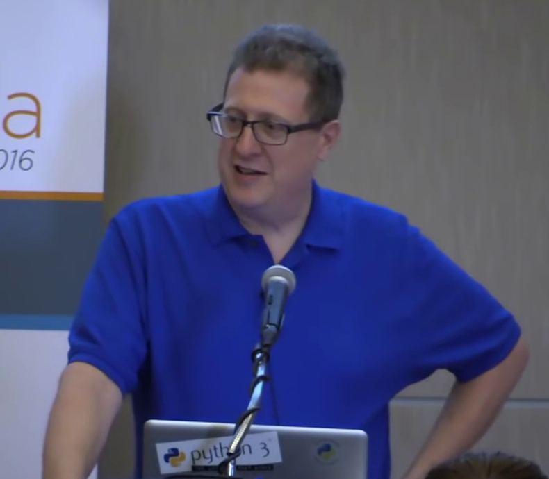 Screen capture from Beazley's PyData Chicago 2016 Keynote address, "Built in Super Heroes"